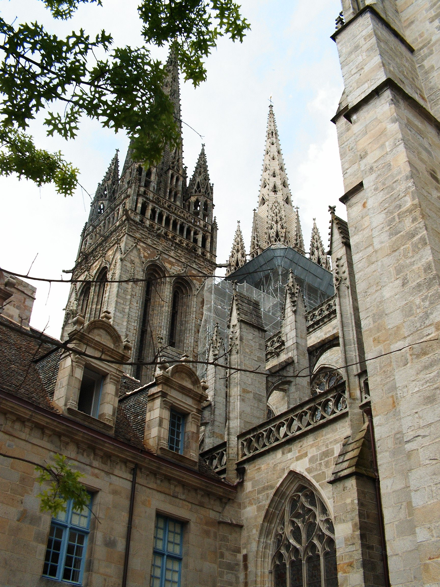 Quimper - Kathedrale